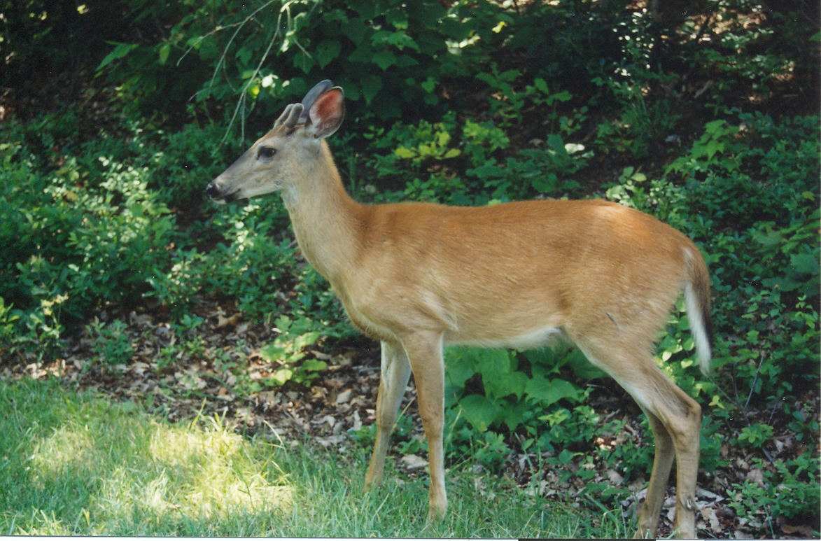 Whitetailed deer, near the road Photo by Jan Kronsell, 2000.